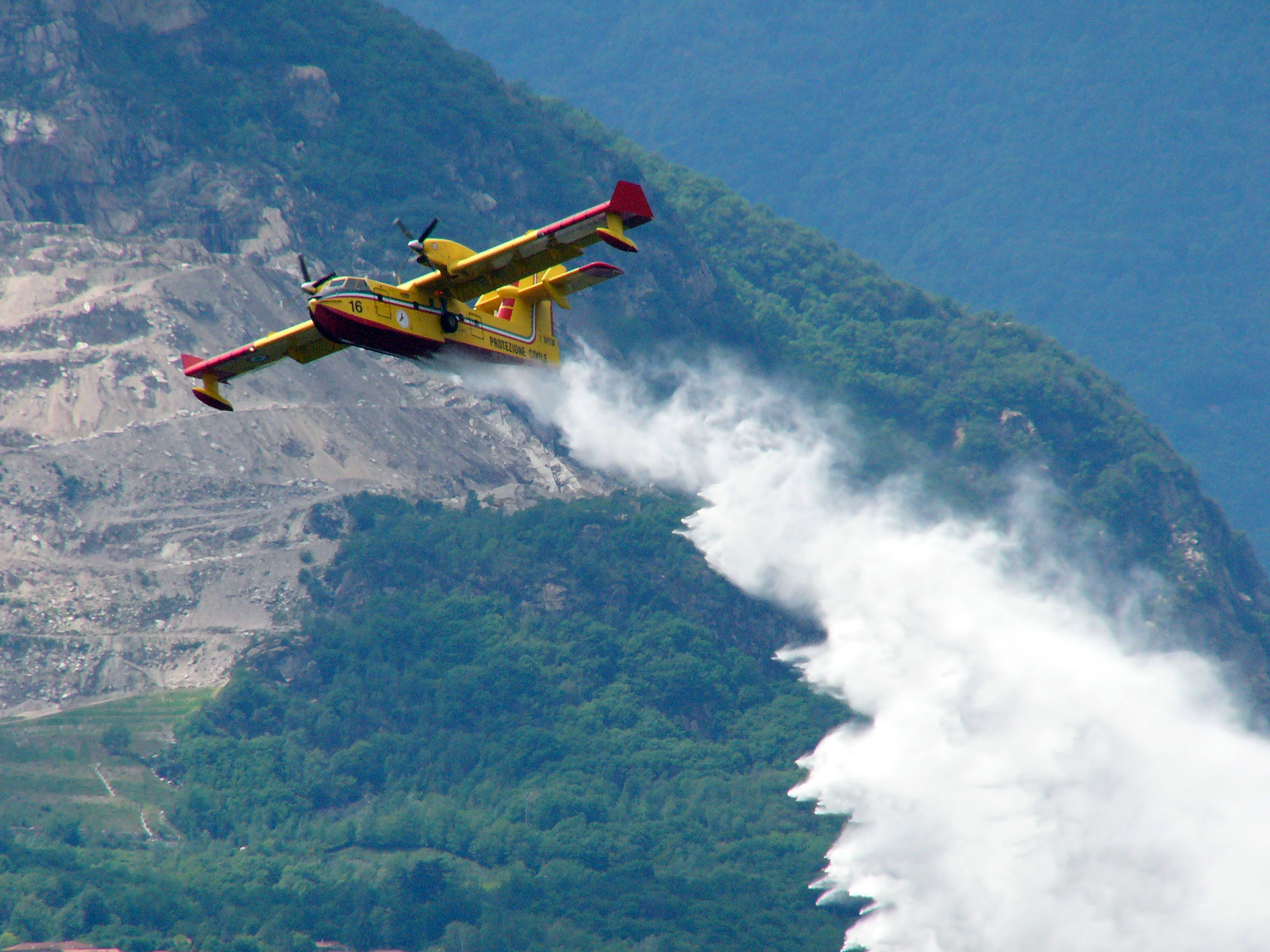 Canadair CL-415 demonstration, at Verbania (Ali sul lago maggiore, Verbania, Italy)